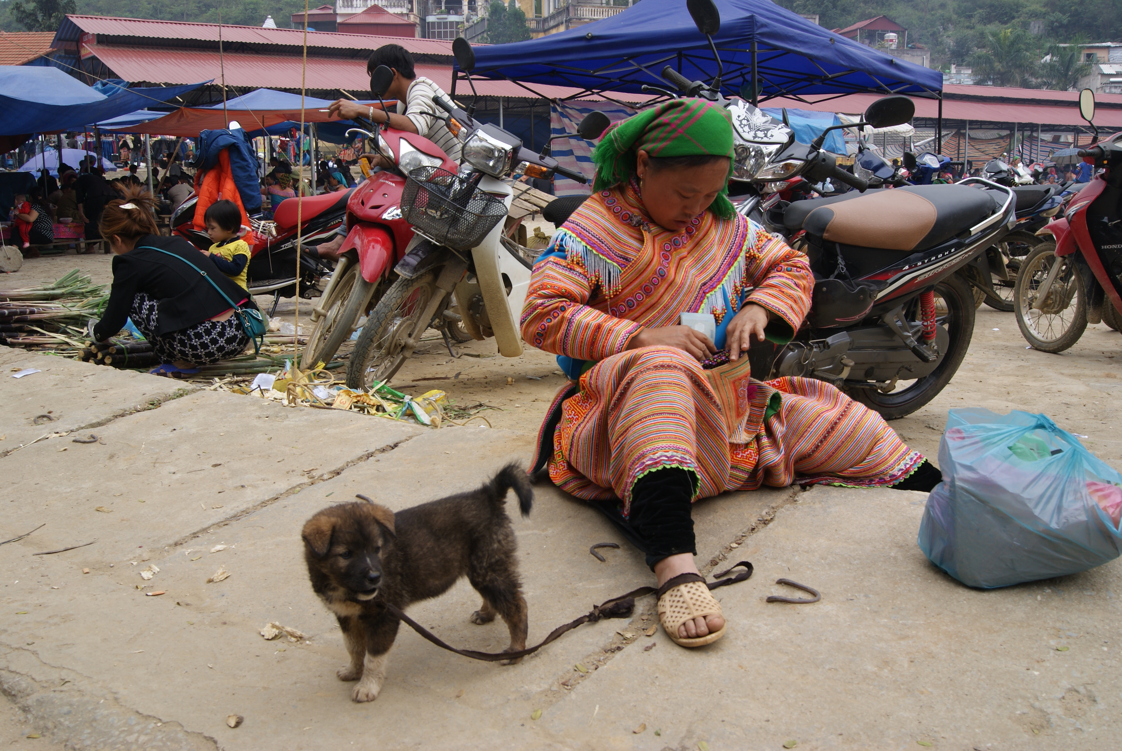 A woman with a puppy in the Bắc Hà Sunday market, Vietnam.